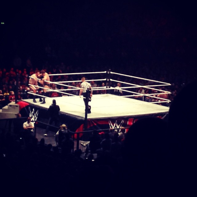 The Miz kicking Sheamus into the turnbuckle at a WWE Live event in Birmingham, England.